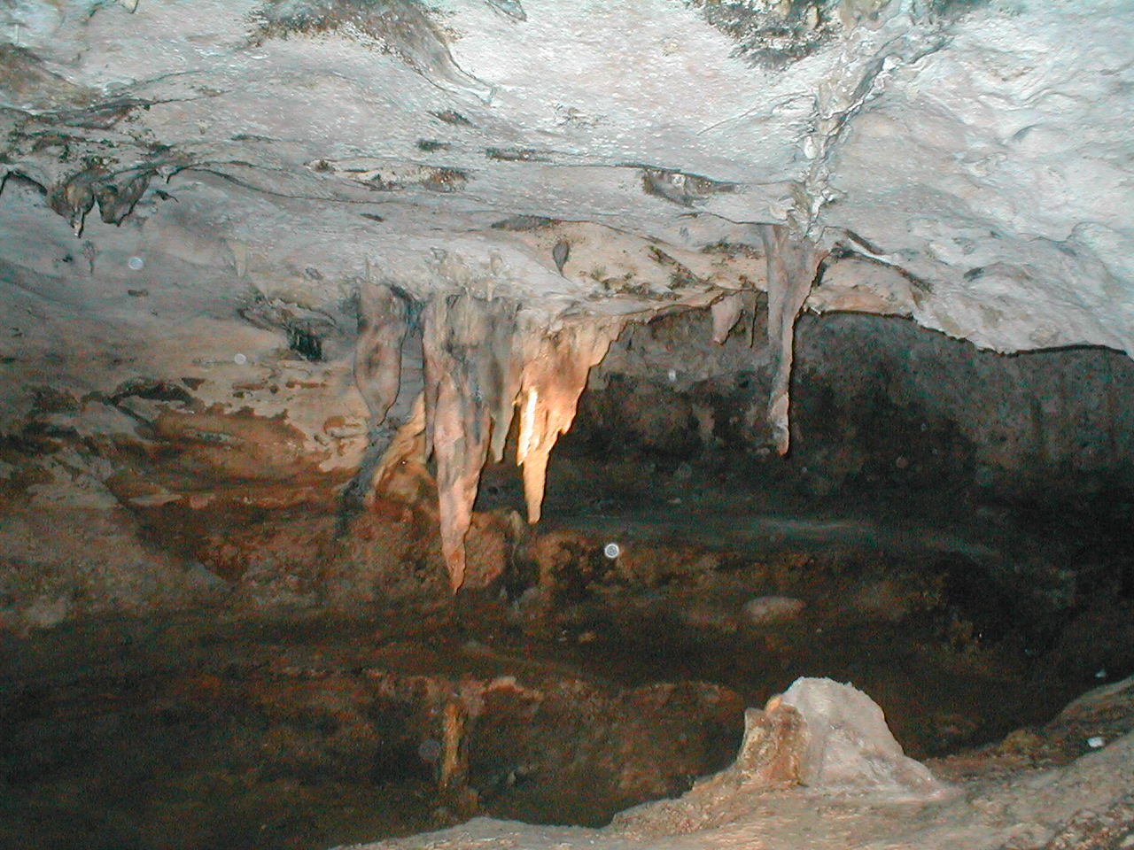 Stalactite formations inside Hato Caves, Curaçao. Picture taken from own collection.